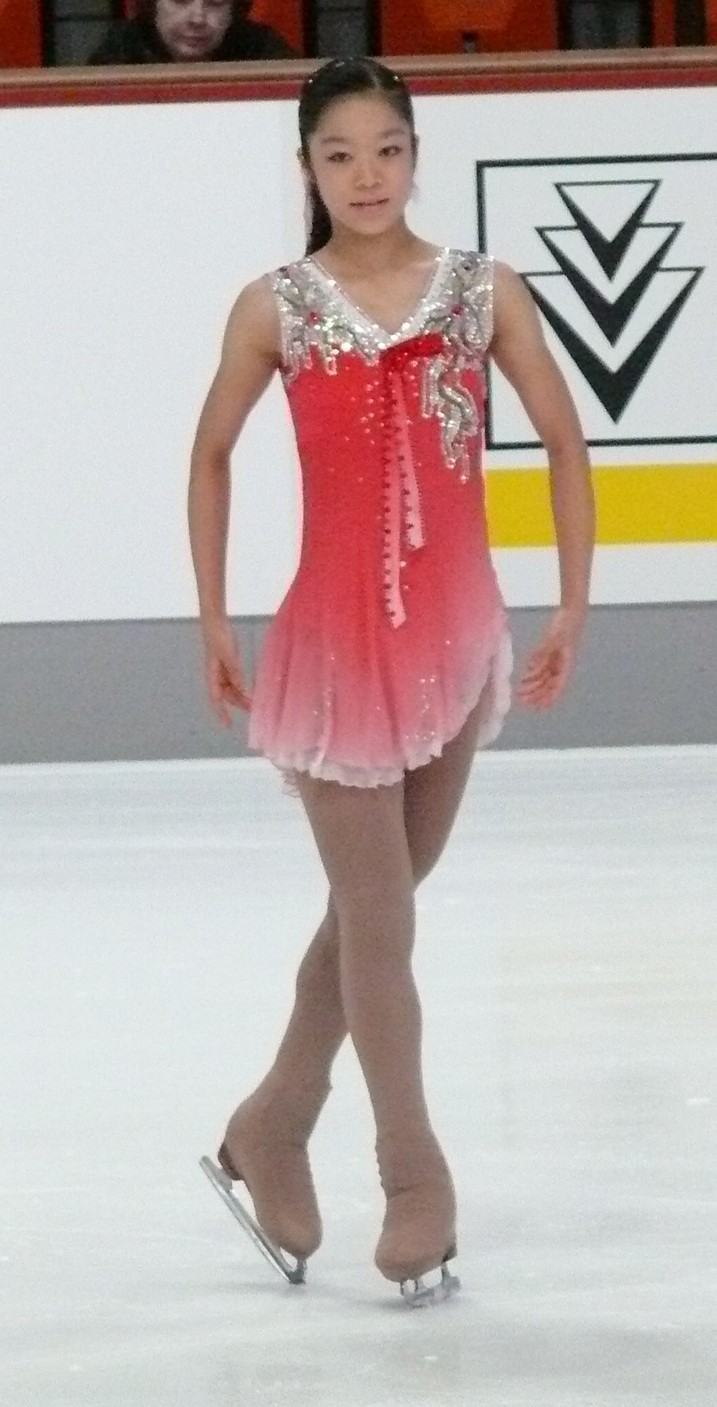 Kim Na-Young (KOR) at her short program at the Nebelhorntrophy 2008 in Oberstdorf, Germany